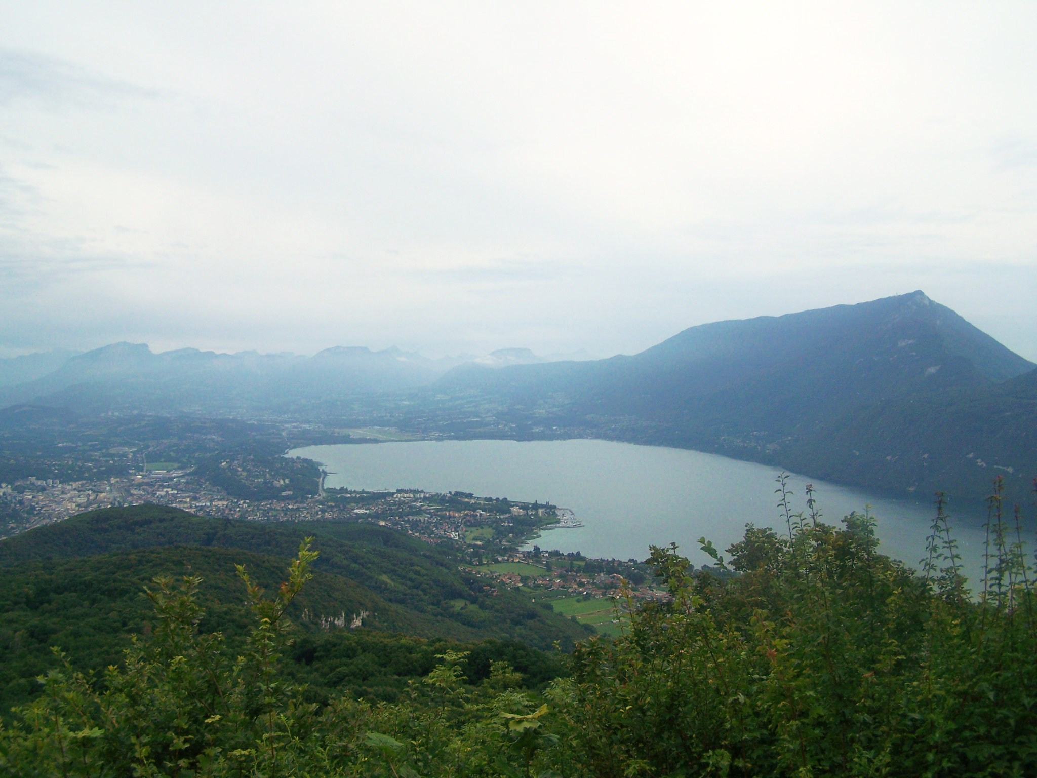 Broad landscape on the Lac du Bourget (Bourget lake) and the city of Aix-les-Bains in Savoie, France since the Corsuet forest.